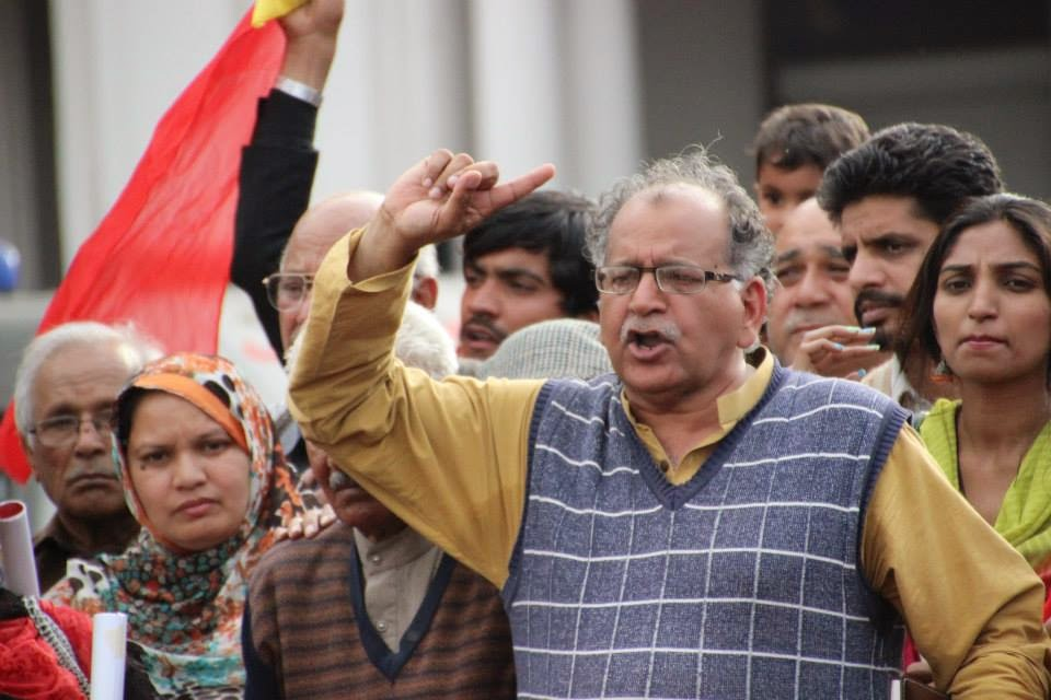 Farooq Tariq addressing the Nurse sit-in protest in Lahore in 2014.